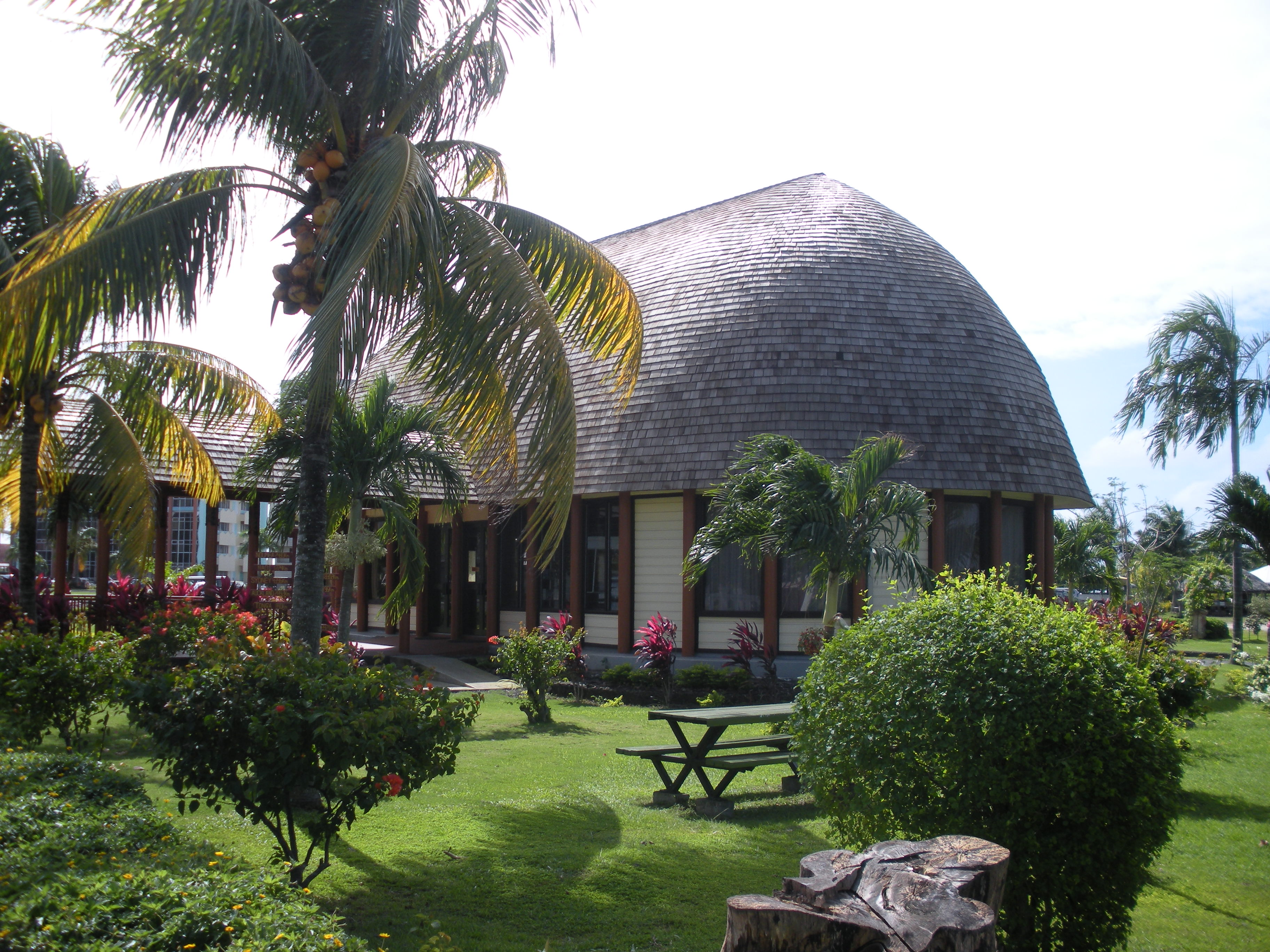 Samoa Visitors Bureau office in Apia, designed as a modern fale. The office is situated by the main road in the main government administration complex in Apia.